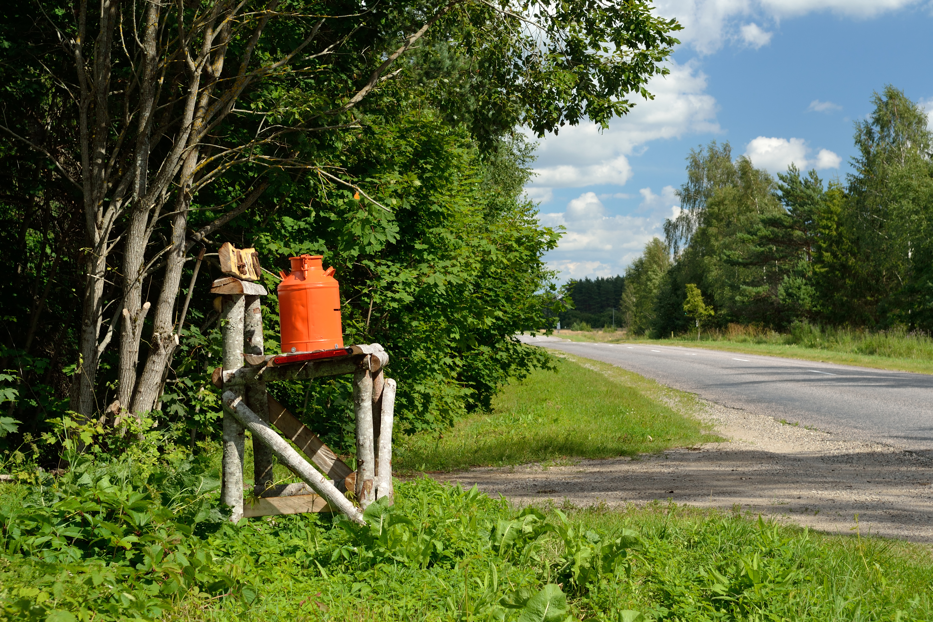 Milk bridge by the Kernu–Kohila road, today used as a mailbox.